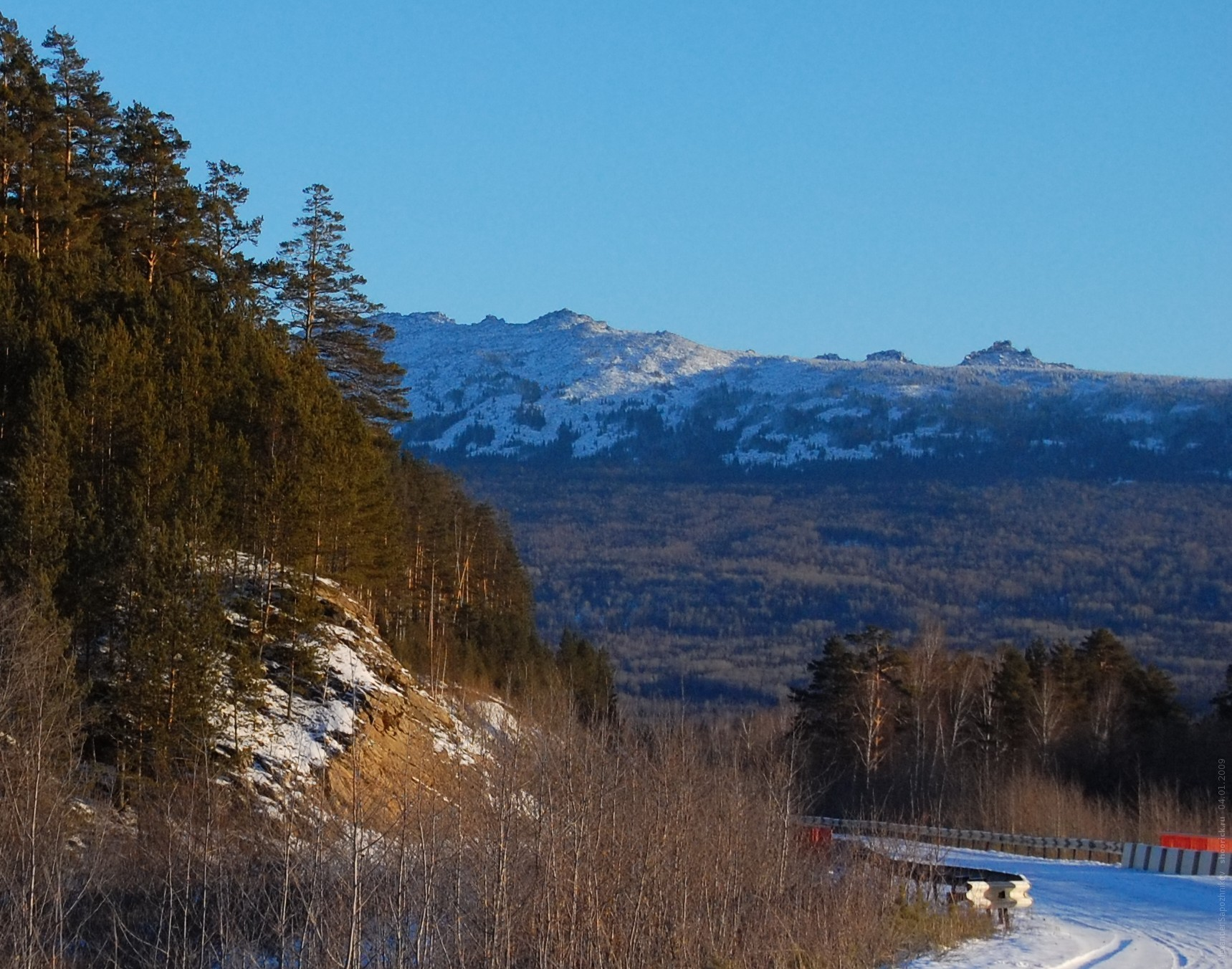 View to Nurgush mountain ridge from Petropavlovka. Road 75K-121 and bridge over Malaya Kalagaza river.